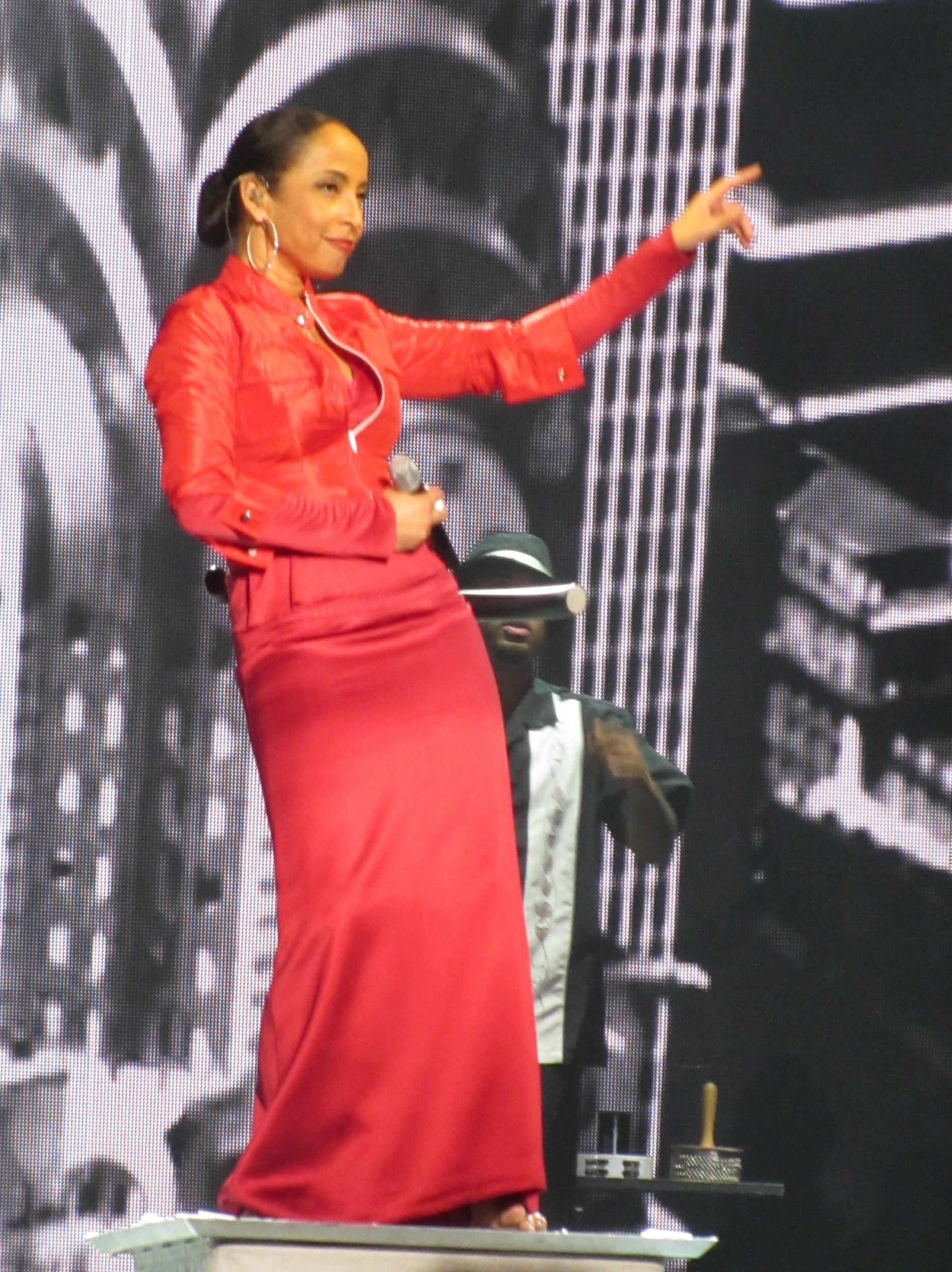 Sade Adu at SAP-Arena Mannheim, Germany 2011-11-16.